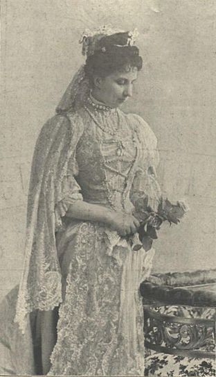 Blanca of Spain